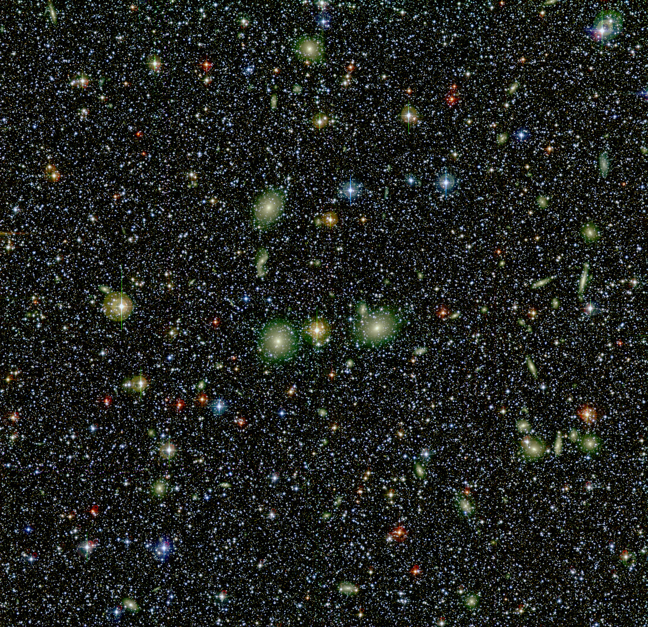 This image covers a field of 0.5° x 0.5° in the Southern constellation of Norma (The Level) and in the direction of the "Great Attractor". This region is at an angular distance of about 7° from the main plane of the Milky Way, i.e. less than 15 times the width of the image shown. In this colour composite, the foreground stars in the Milky Way mostly appear as whitish spots (the "crosses" around some of the brighter stars are caused by reflections in the telescope optics). Many background galaxies are also seen. They form a huge cluster (ACO 3627) with a number of bright galaxies near the center — they stand out by their larger size and yellowish colour. In order to facilitate transport over the Web, this image has been compressed by a factor of four from its original size (8500 x 8250 pixels). North is up and East is left. Five exposures each were made in blue (B-band filter; 5 x 300 sec), red (R-band filter; 5 x 180 sec) and near-infrared (narrow-band filter centered at 816 nm; 5 x 240 sec) light and combined into a false-colour composite by using blue, green, and red colour for the three images, respectively. A logarithmic intensity scale is used to better show the inner as well as the outer regions of the galaxies in this field. Credit: ESO